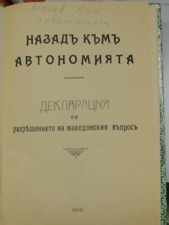 Front page of Dimo Hadjidimov's "Nazad kam Avtonomiyata"